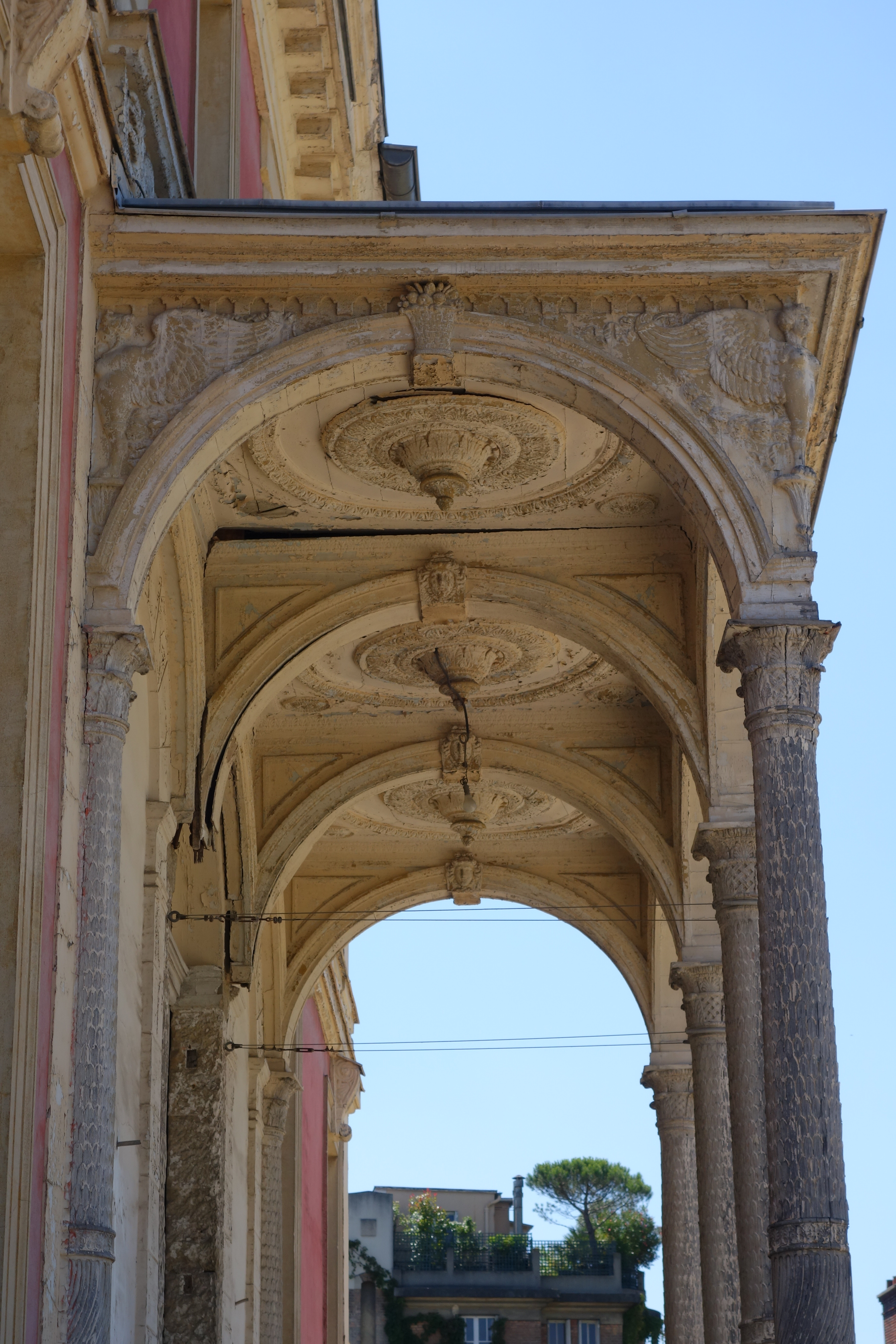 The Folie Saint-James in Neuilly-sur-Seine, France.